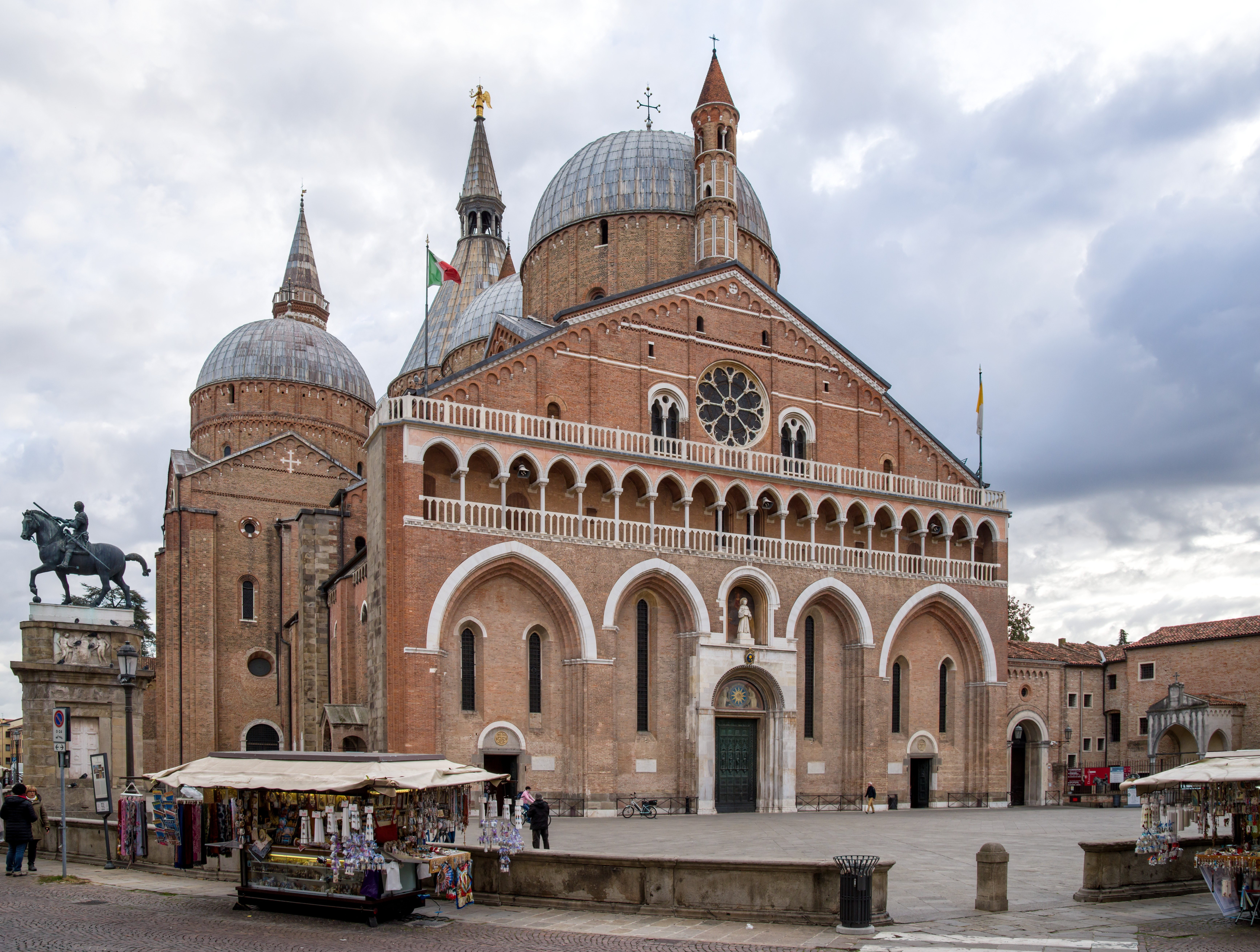 A stroll through Padua